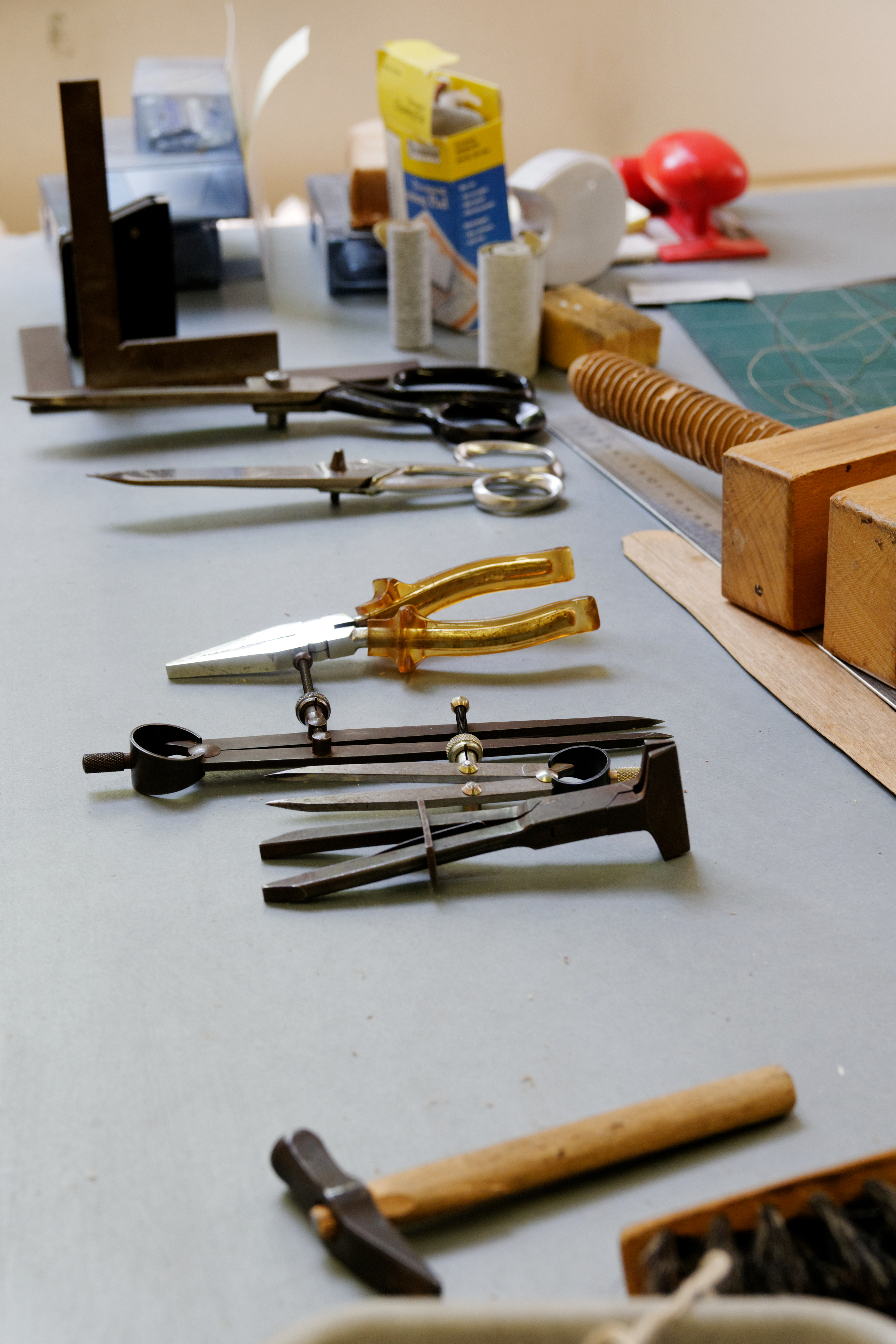 Bookbinding instruments. Bookbinding room, Bibliothèque Sainte-Geneviève, Paris.